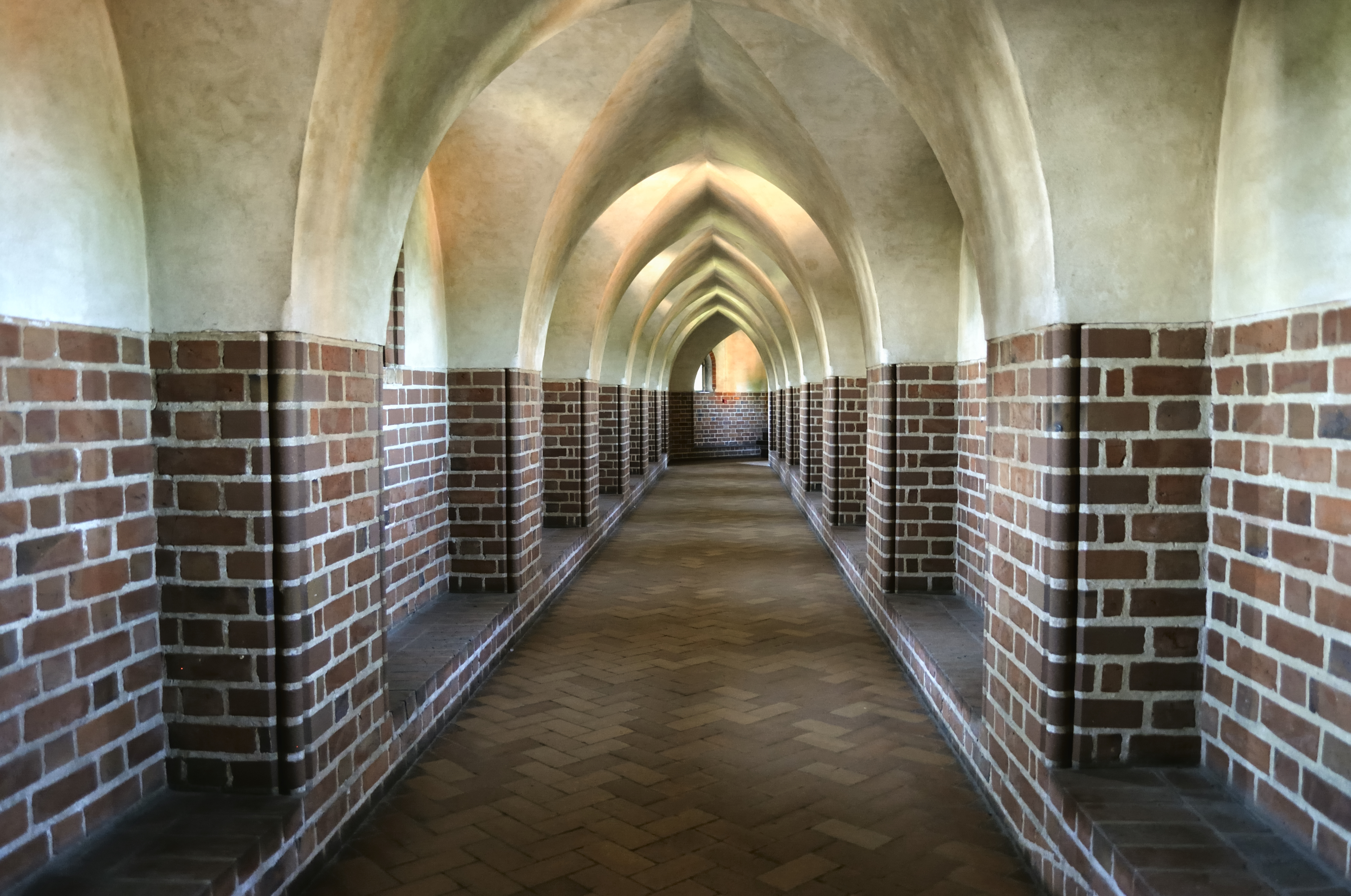 Picture taken in Malborg after Wikimania 2010 conference. Corridor to Toilet tower.